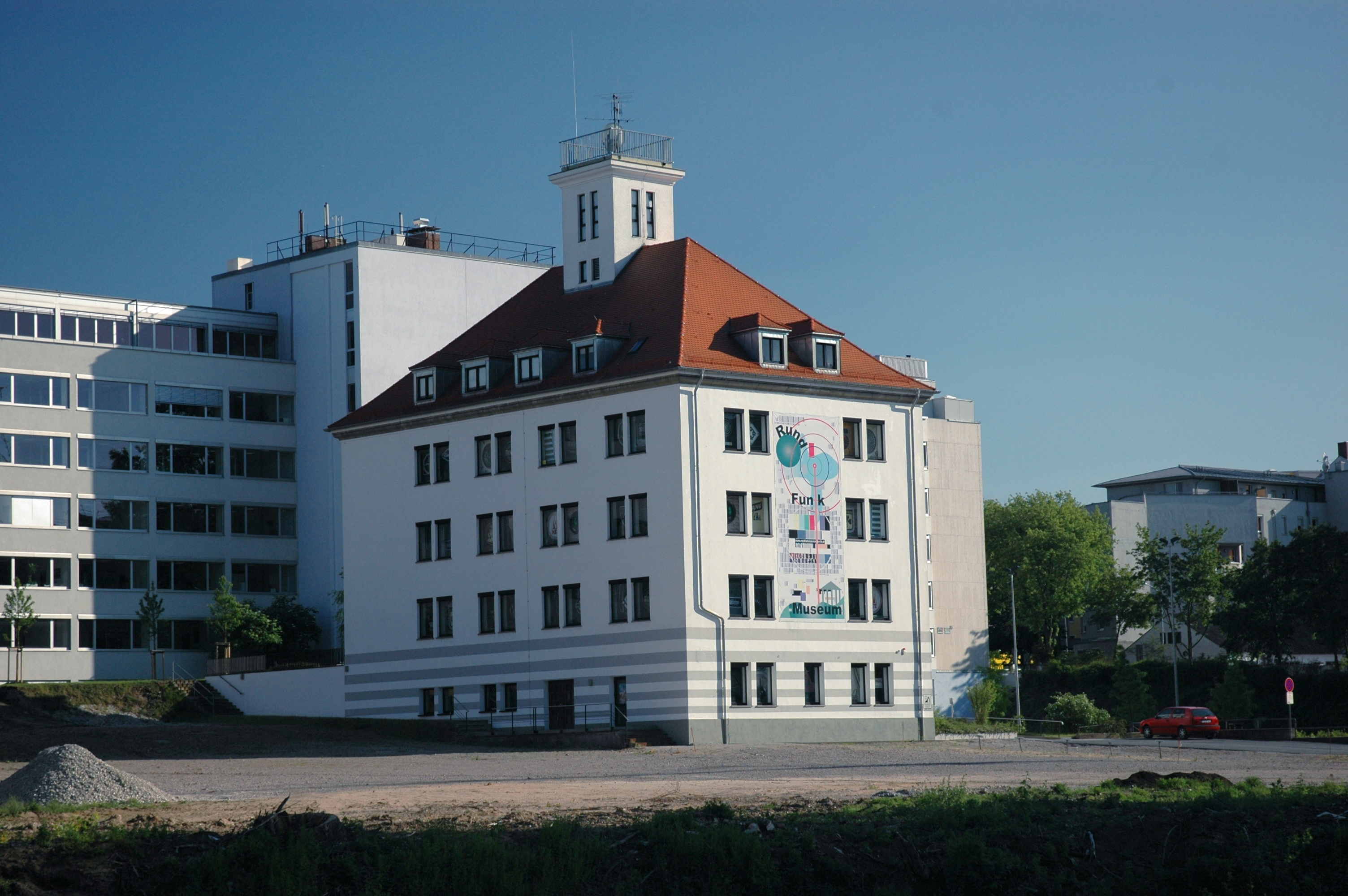 Radio Museum of the City of Fürth